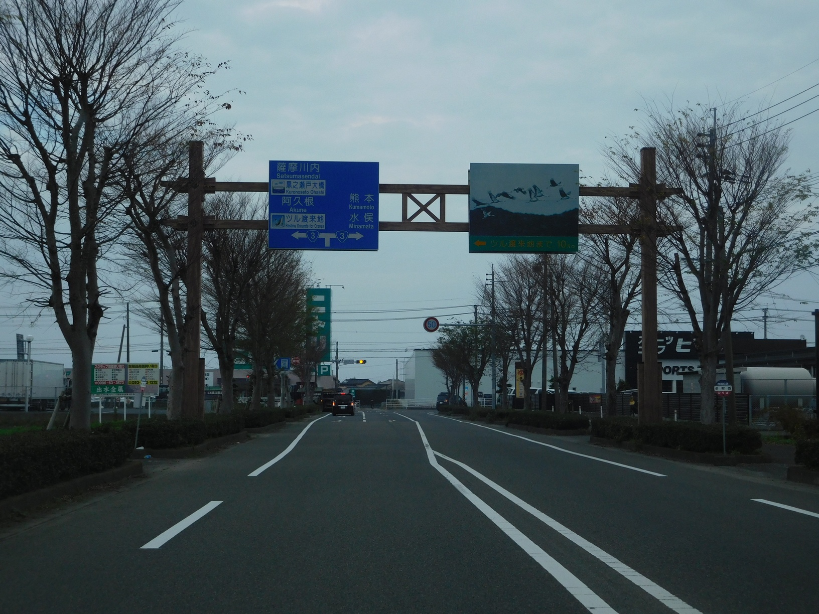 National Route 328 Ends (Izumi City, Kagoshima Prefecture, Japan)